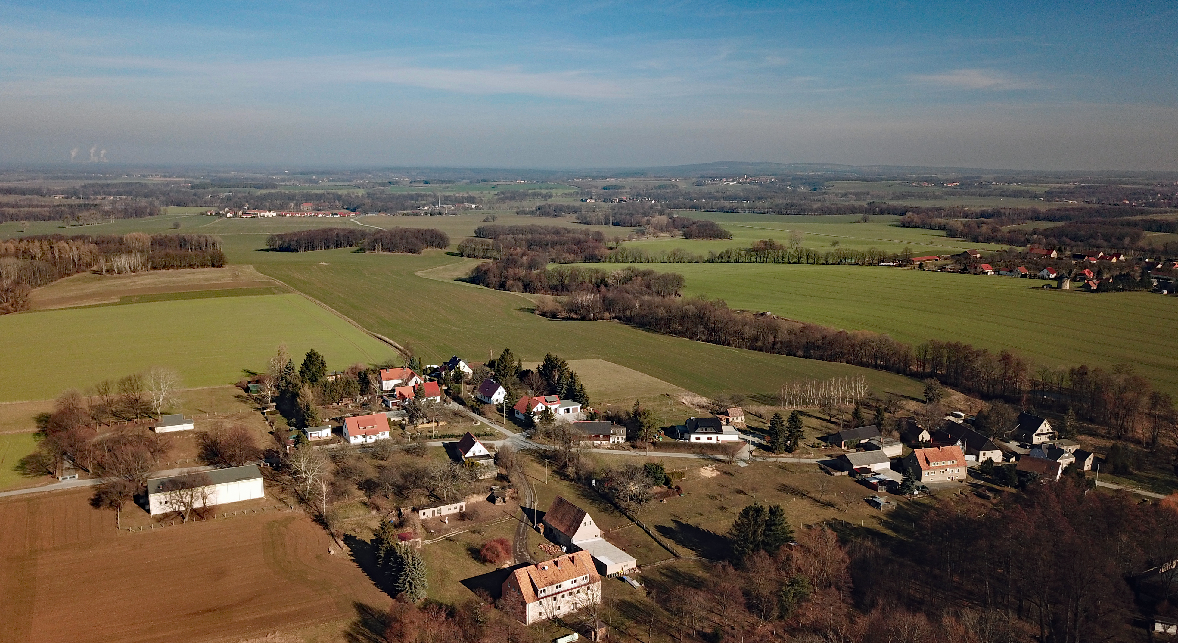 Wawitz (Hochkirch, Saxony, Germany) Hornjoserbsce: Powětrowy wobraz Wawic pola Bukec Dieses Foto wurde mit einem Quadcopter innerhalb der RMZ des Flugplatzes EDAB aufgenommen. Der Flugleiter wurde am Aufnahmetag telephonisch über Ort und Zeit informiert und hat zugestimmt. Der Flug erfolgte auf Grundlage der Allgemeinverfügung der Landesdirektion Sachsen zur Erteilung der Betriebserlaubnis für unbemannte Luftfahrtsysteme und Flugmodelle gemäß § 21a LuftVO und Zulassung von Ausnahmen von Betriebsverboten gemäß § 21b LuftVO für den Freistaat Sachsen.